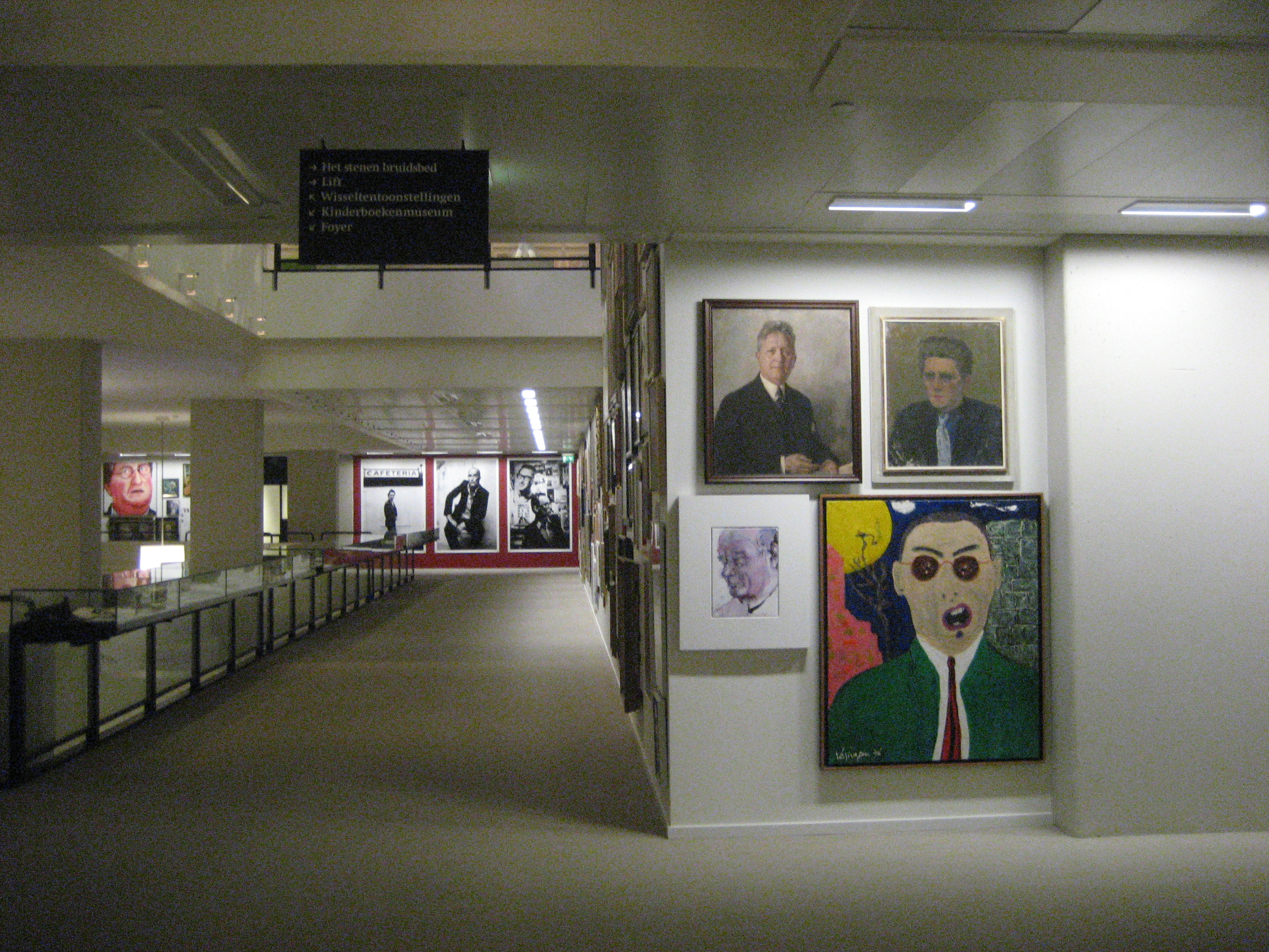 Portrait Gallery, Dutch Literature Museum, The Hague (The Netherlands), Febr. 2014